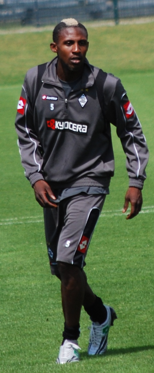 Steve Gohouri